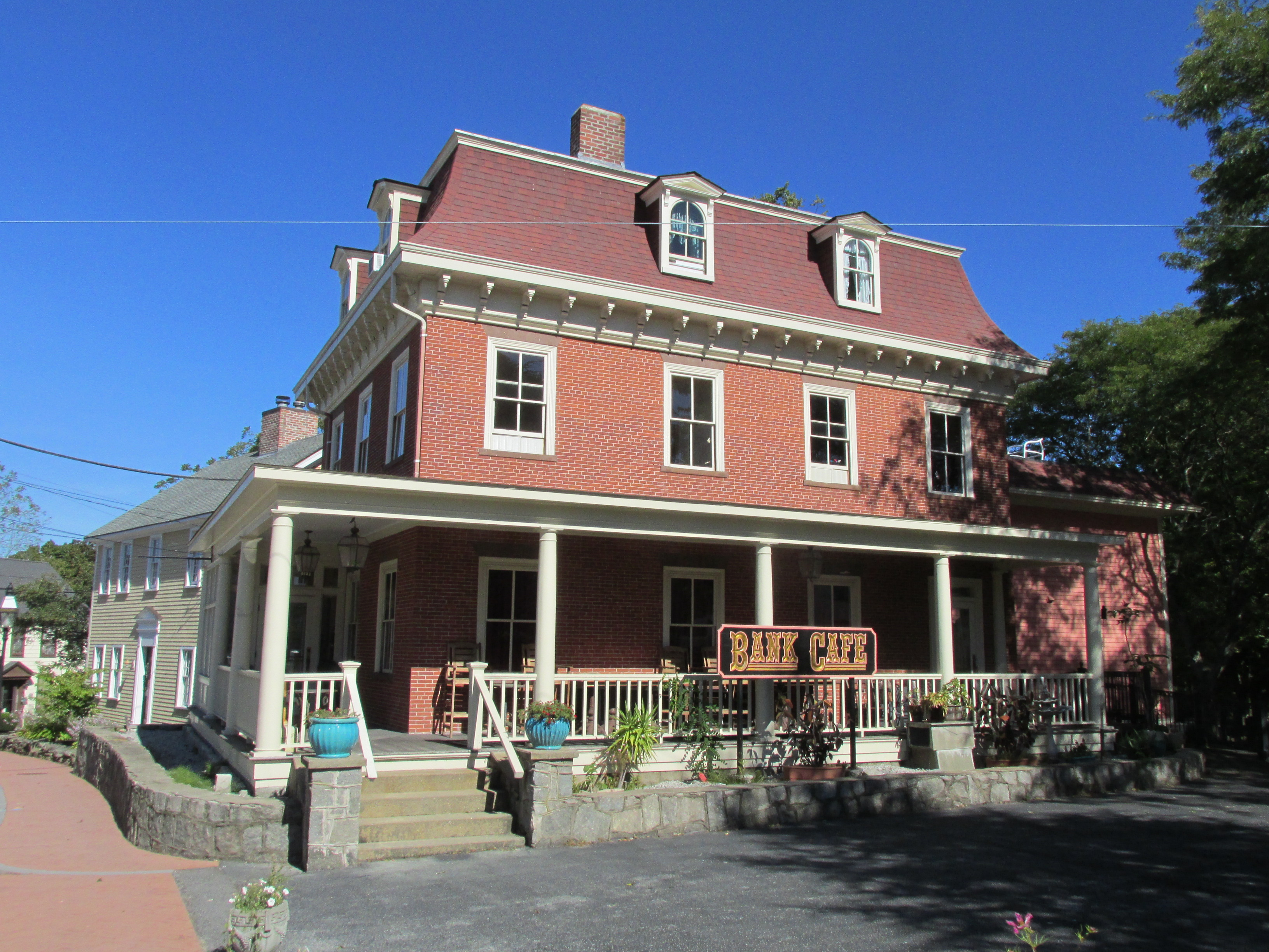 Bank Cafe in the Pawtuxet Village Historic District, Pawtuxet Rhode Island